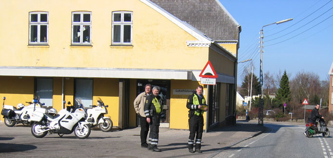 Police control at Græsted Kirke